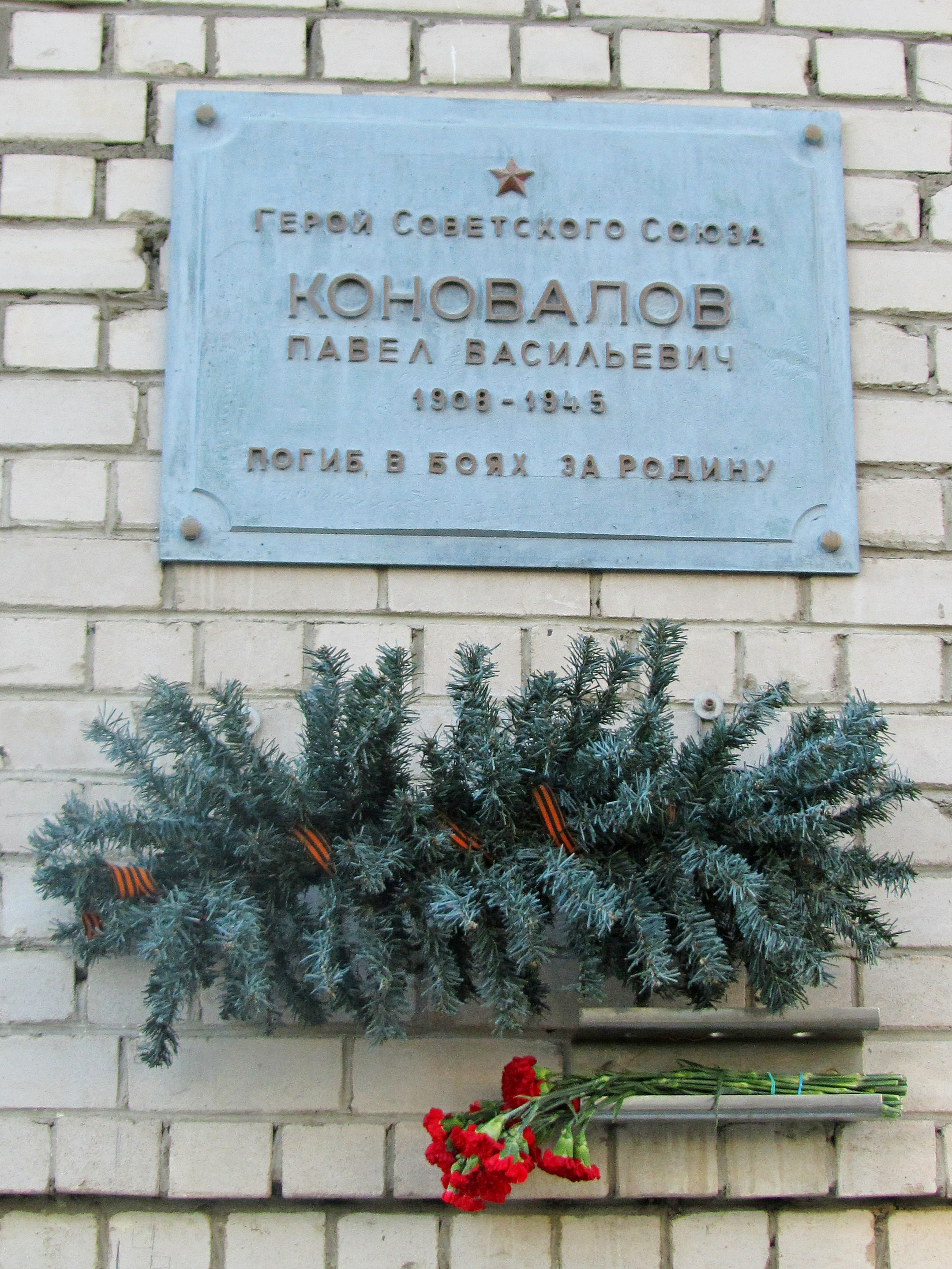 Konovalova Street, Severodvinsk